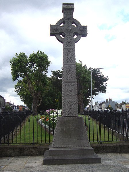 Photo taken by me on 12 August 2009, of the memorial cross at Harold's Cross Park, Dublin, Ireland.Hohenloh + 19:55, 9 September 2009 (UTC)